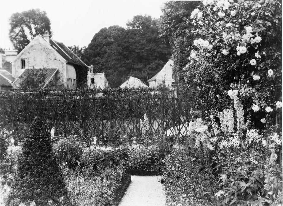 View of the gardens at Pavilion Colombe, St. Brice-sous-Forêt, France, with the home of American writer Edith Wharton in the background. Photograph by American photographer Frances Benjamin Johnston. No known restrictions on publication. Johnston archives part of the Library of Congress, Washington, D. C. [1]